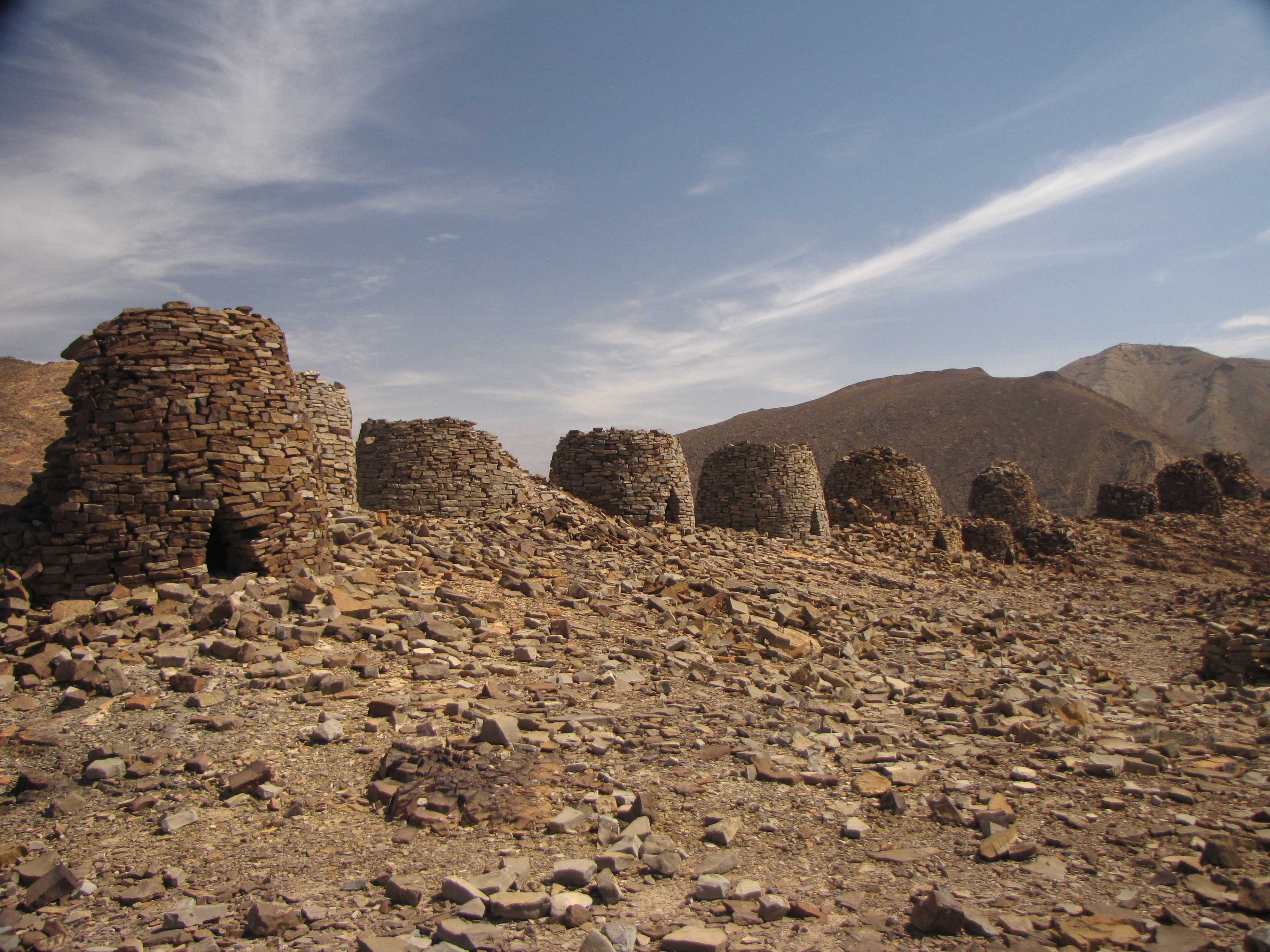 Weltkulturerbe Gräber bei Al Ayn / Oman